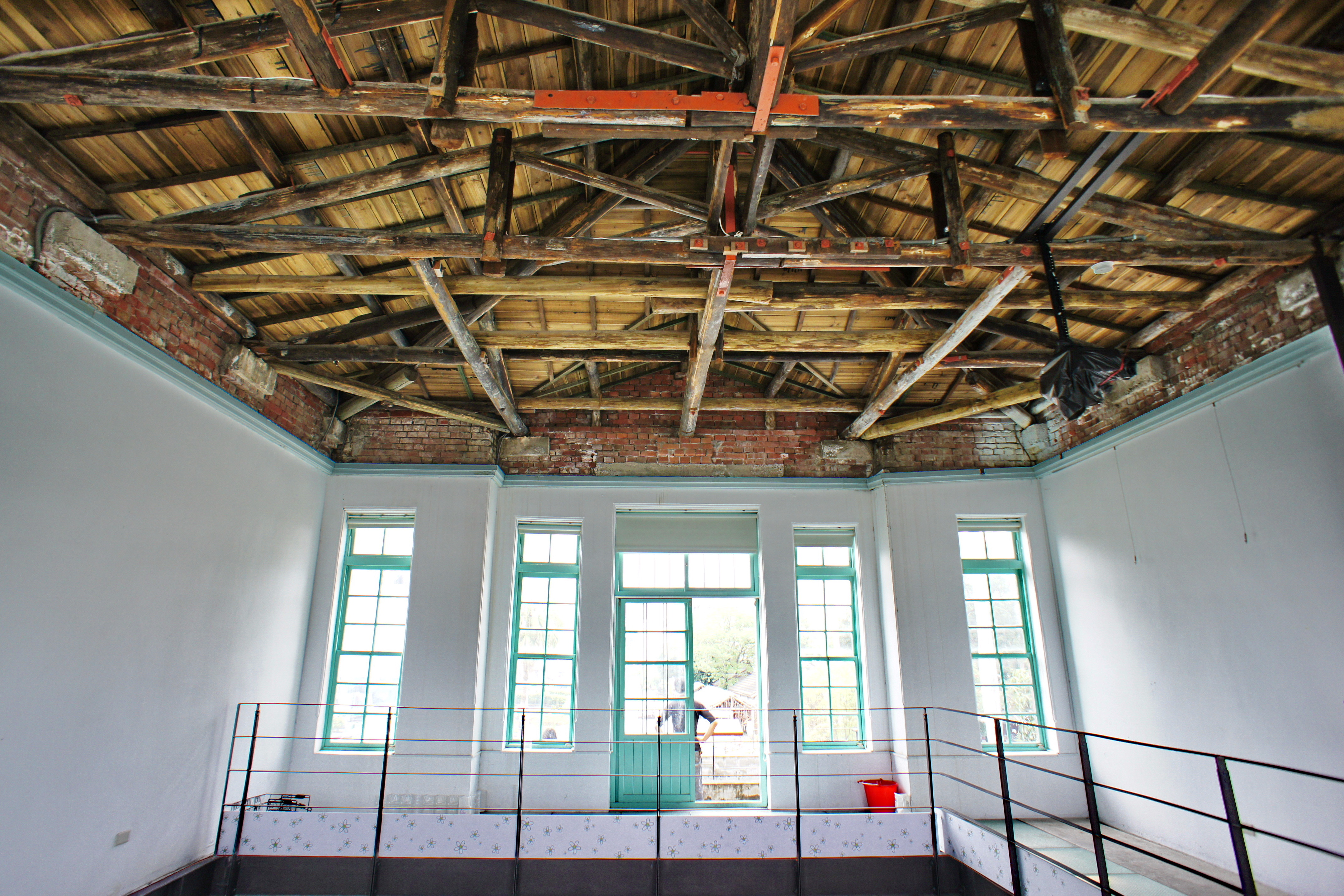 The Memorial Assembly Hall in Douliou, Yunlin, Taiwan.